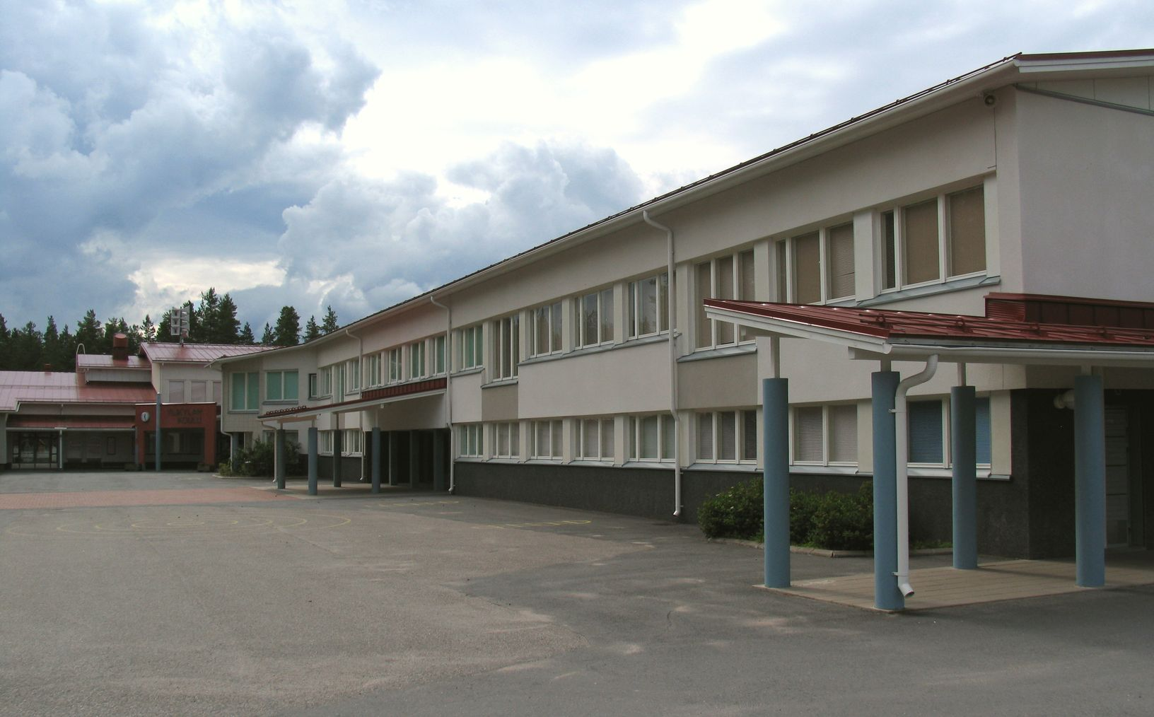 Ylikylä School, Kempele, Finland